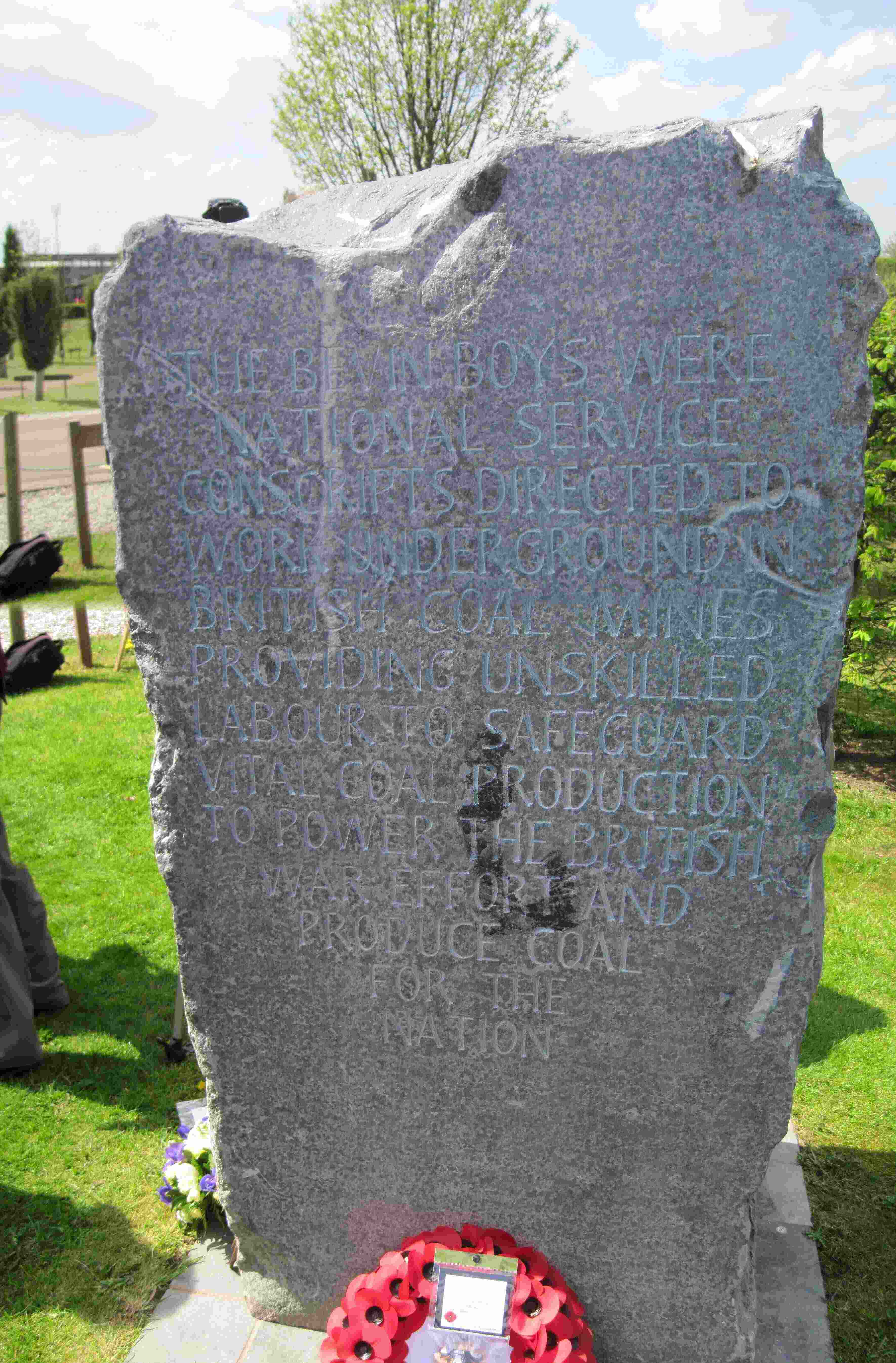 Dedication of Memorial, National Memorial Arboretum, Alrewas, Staffordshire